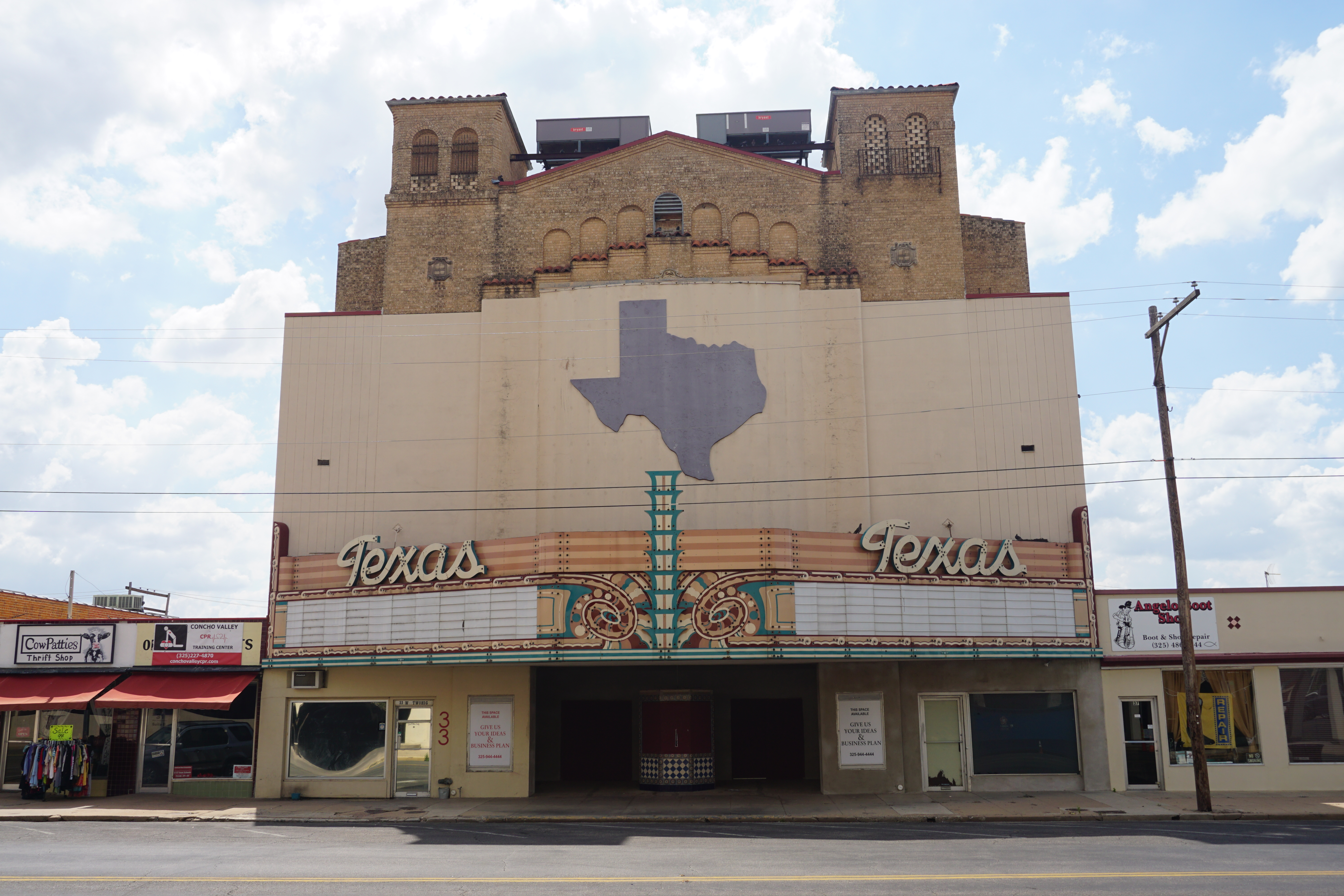 The former Texas Theatre in San Angelo, Texas (United States).